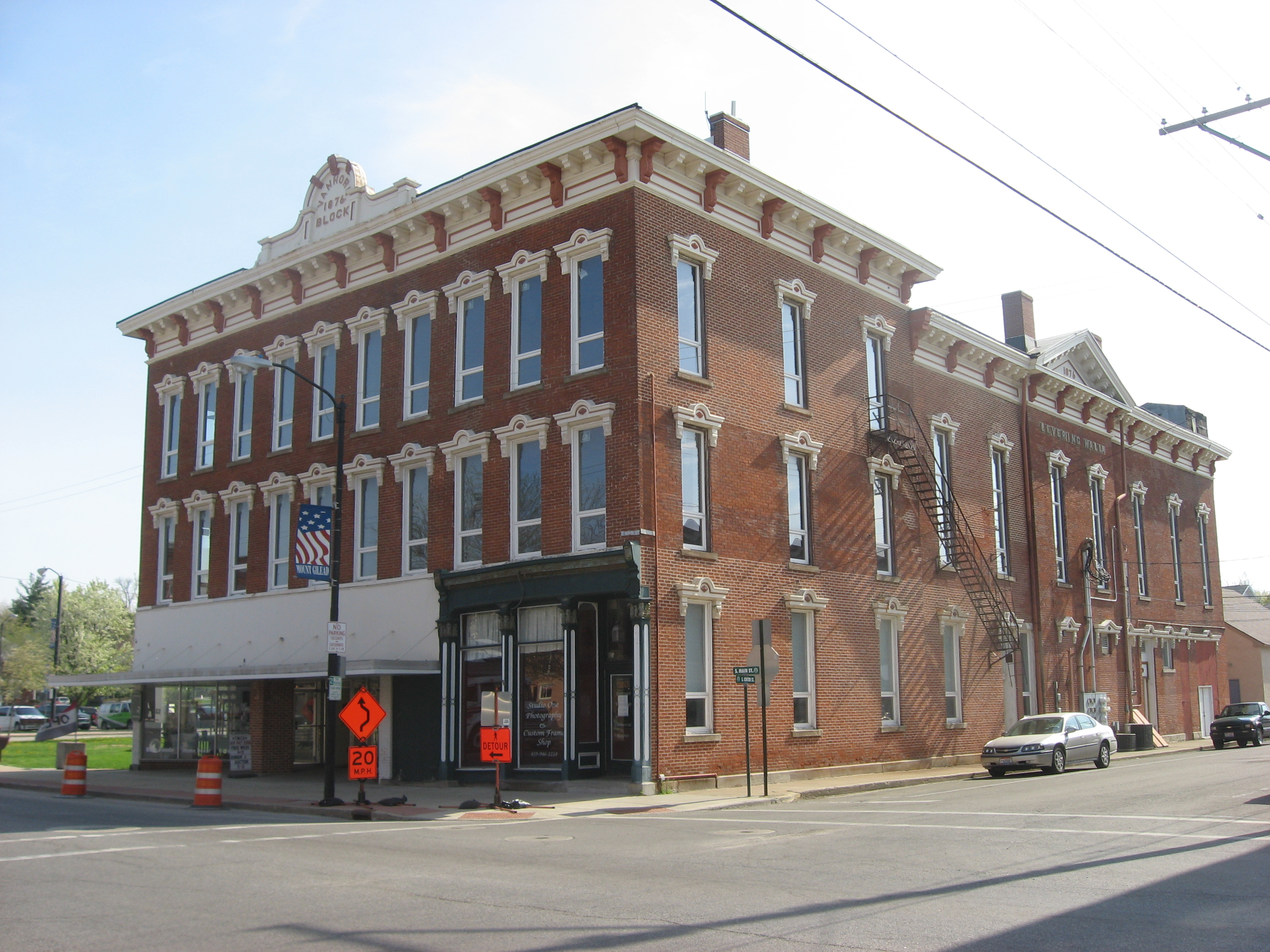 Front and southern side of Levering Hall, located at 12 S. Main Street (U.S. Route 42) in downtown Mount Gilead, Ohio, United States. Built in 1876 and formerly used as the municipal building, it is listed on the National Register of Historic Places.